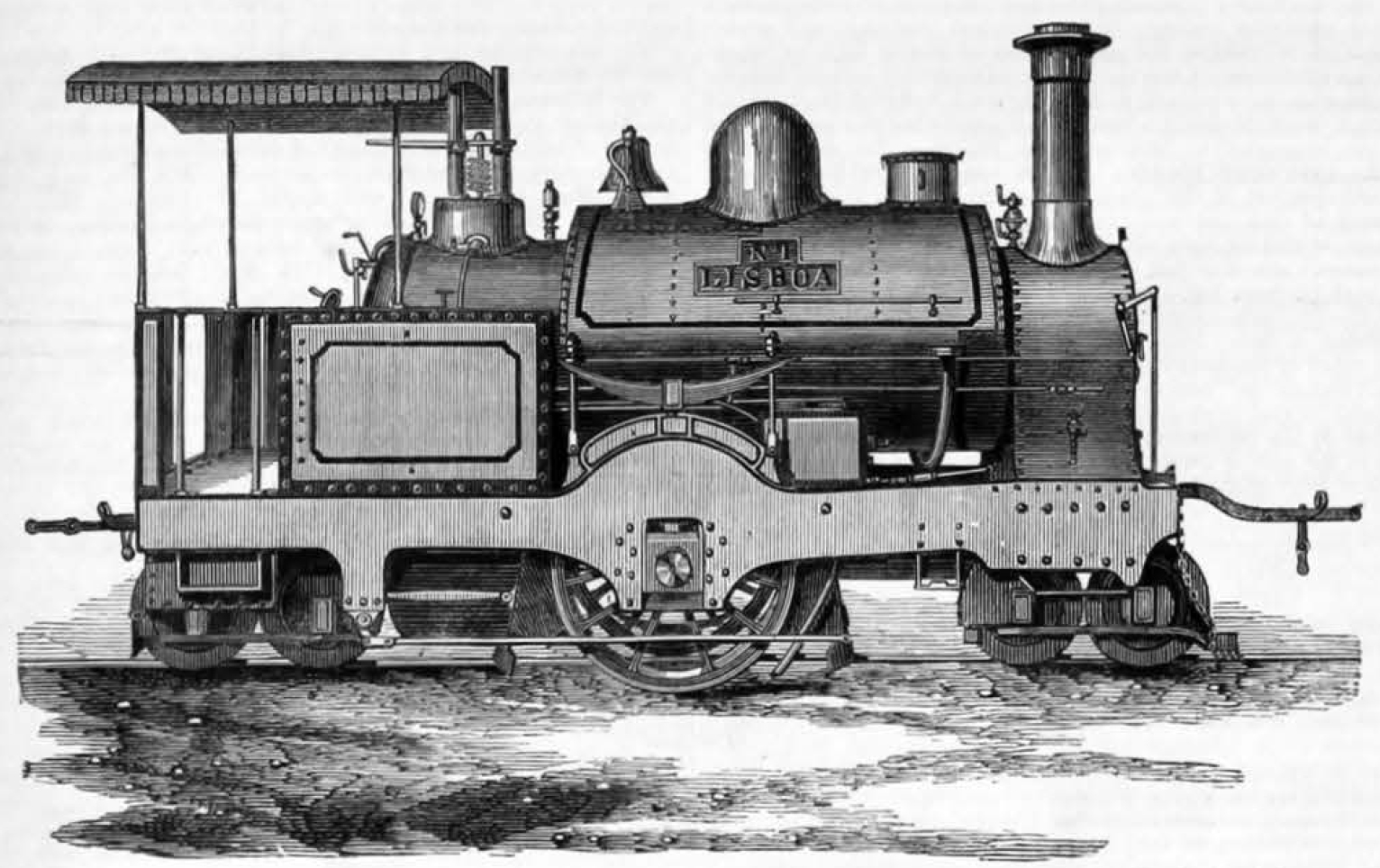 Locomotive No. 1, named "Lisboa", of the portuguese Larmanjat system. This image was published on "The Engineer" magazine of the 18th April 1873, scanned by the Grace's Guide website.